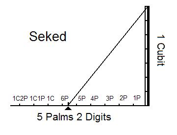 A diagram showing how the ancient Egyptian Seked angle system worked.